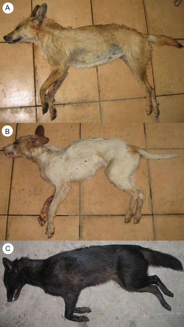 Three golden jackal-dog hybrids shot in Croatia, 2015. Individual A was an adult female showing light coat colour, digital pad depigmentation and atypical long ears with rounded tip (whereas golden jackals have shorter triangle-shaped ears). However, the digital pads of the middle fingers were partially joined as commonly occurs in golden jackals, but not in dogs. Individual B was a juvenile male found and shot together with female A, probably representing a mother–son pair. It displayed a dog-like morphology, particularly similar to the Istrian shorthaired hound breed (very short hair on the head, white coat colour with sparse patches of light brown, dewclaws on hind legs). However, the animal’s tail was shorter and thicker than typical for this dog breed and more similar to that of a golden jackal. Thus, it was hypothesized that it could have originated through a backcross between the putative hybrid female A and a male Istrian shorthaired hound dog. Individual C was a male that exhibited black coat coloration, atypical for golden jackals, and other dog characteristics such as ears with rounded tip. However, the digital pads on the middle fingers of its forelimbs were partially joined, as in golden jackals.